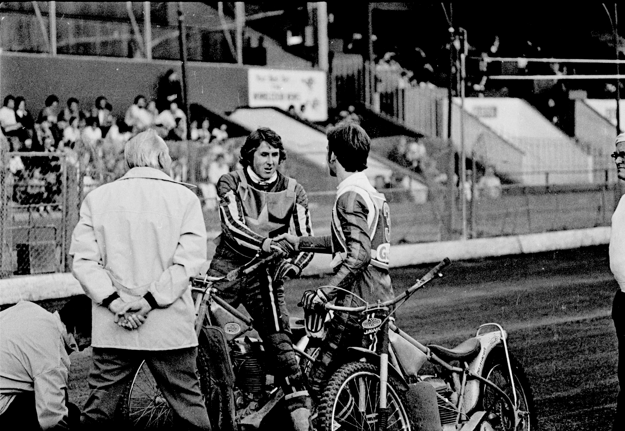 Captains Barry Briggs (Dons) and Gordon Kennett (Oxford) toss for gate positions